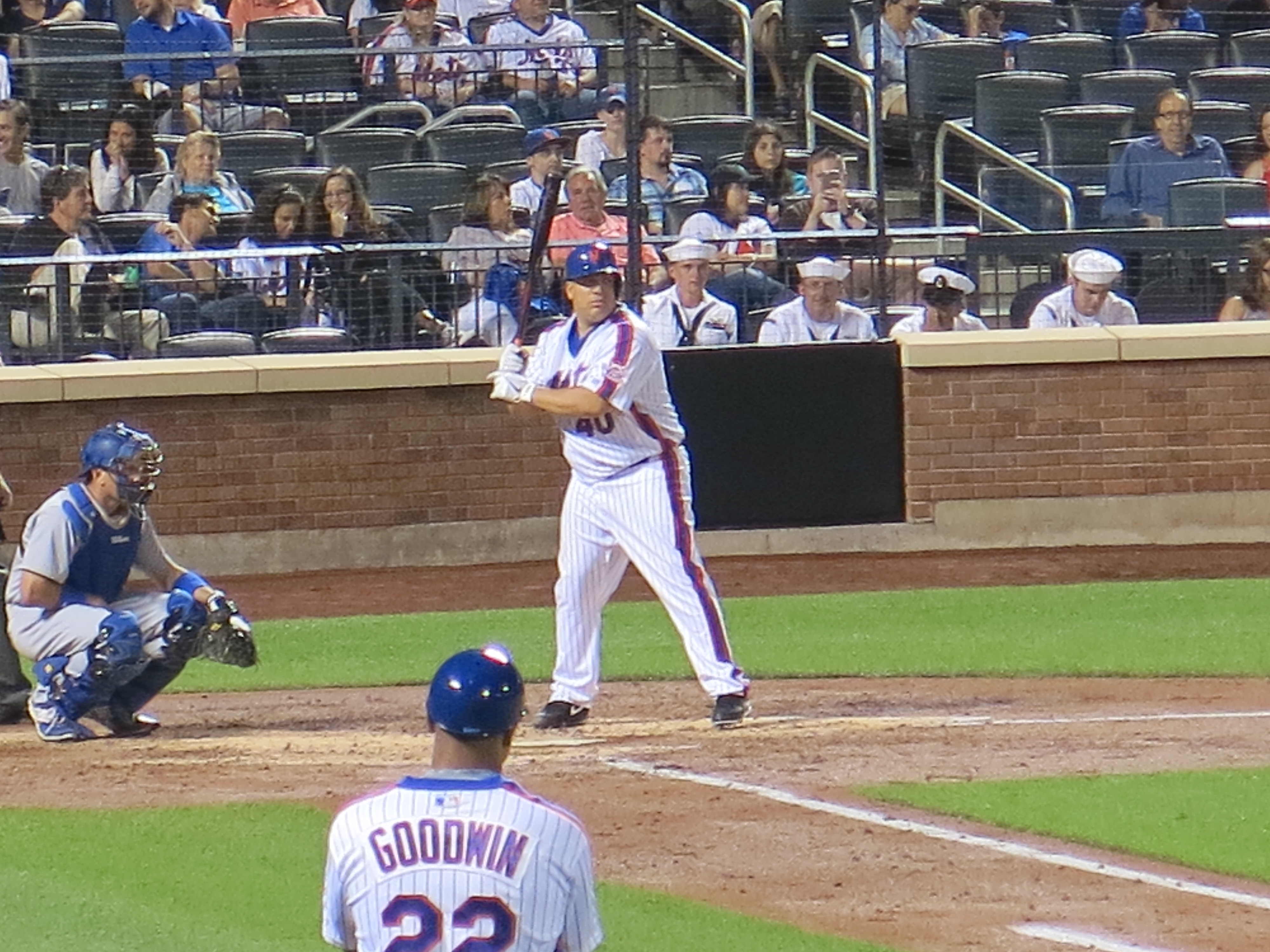 Bartolo Colón with the New York Mets, May 29, 2016.